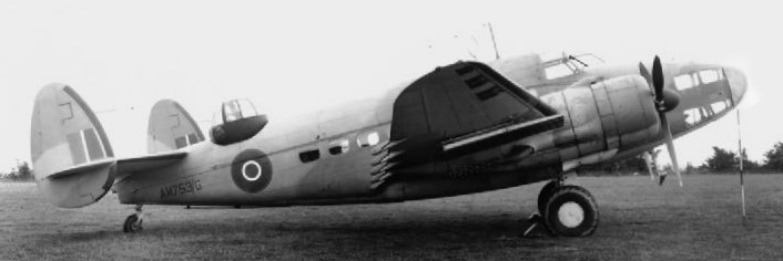 A Royal Air Force Lockheed Hudson Mark V, (s/n AM753/G) on the ground at Eastleigh, Hampshire (UK), following erection by Cunliffe Owen Aircraft Ltd. After trials with the Coastal Command Development Unit, the Aeroplane and Armament Experimental Establishment and the Royal Aircraft Establishment, AM753 was passed to No. 5 Operational Training Unit.